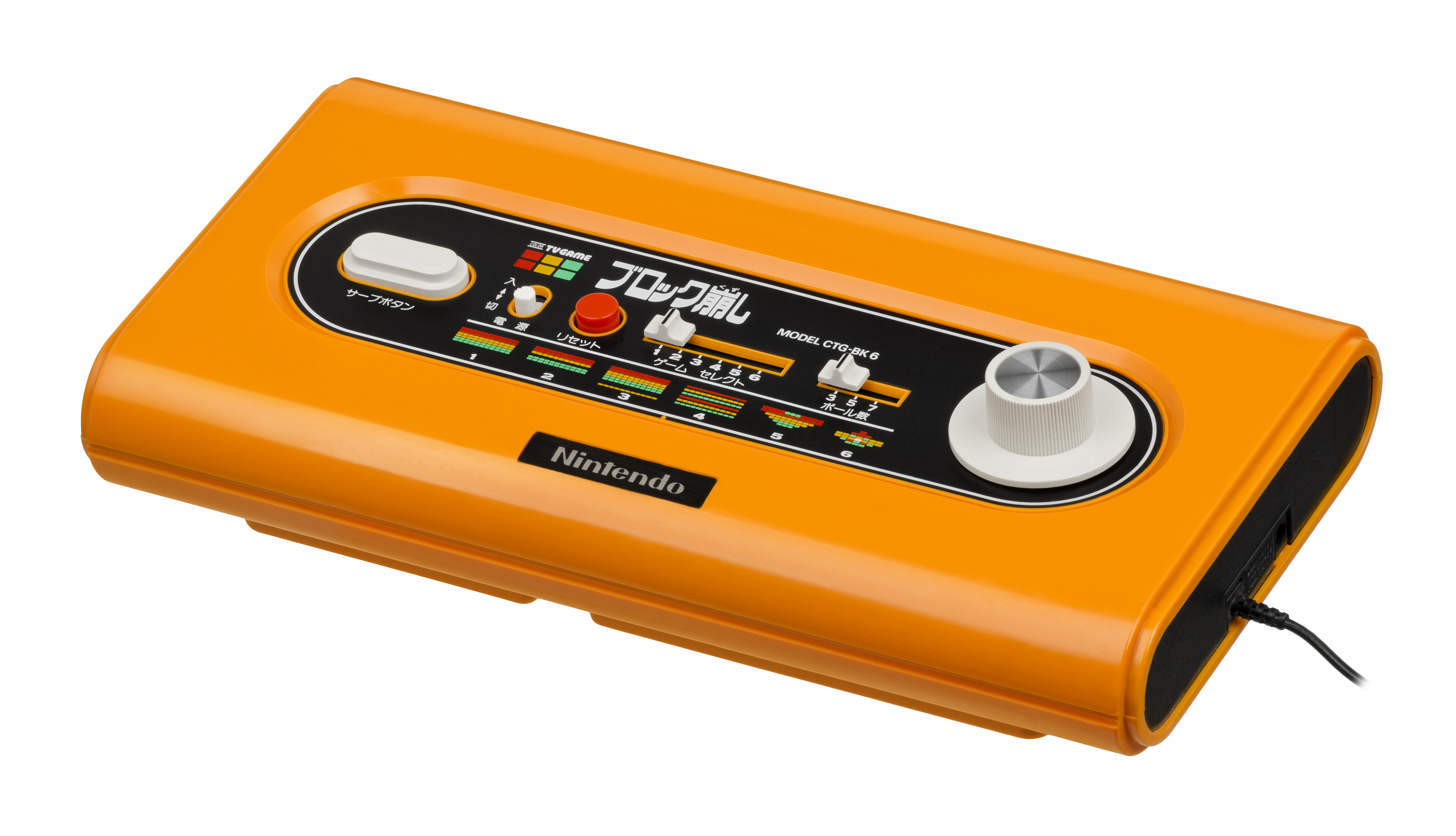 The Nintendo Color TV Games Blockbreaker (Karā Terebi-Gēmu Burokku Kuzushi), a dedicated game system that plays a Breakout copycat. Released in 1979 in Japan, the model number is CTG-BK6.